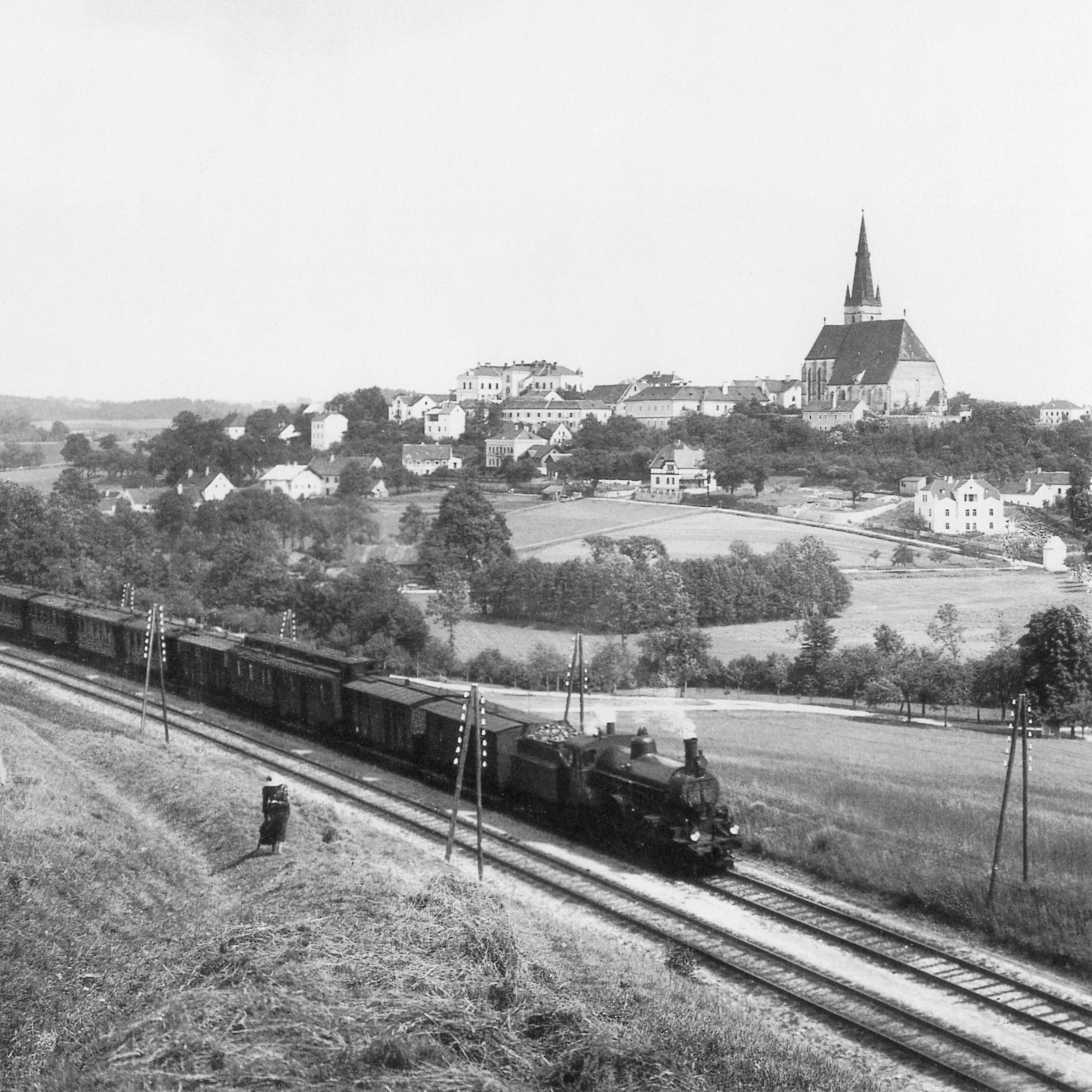 Passenger Train with class 206 engine passing the small town of Haag, Lower Austria